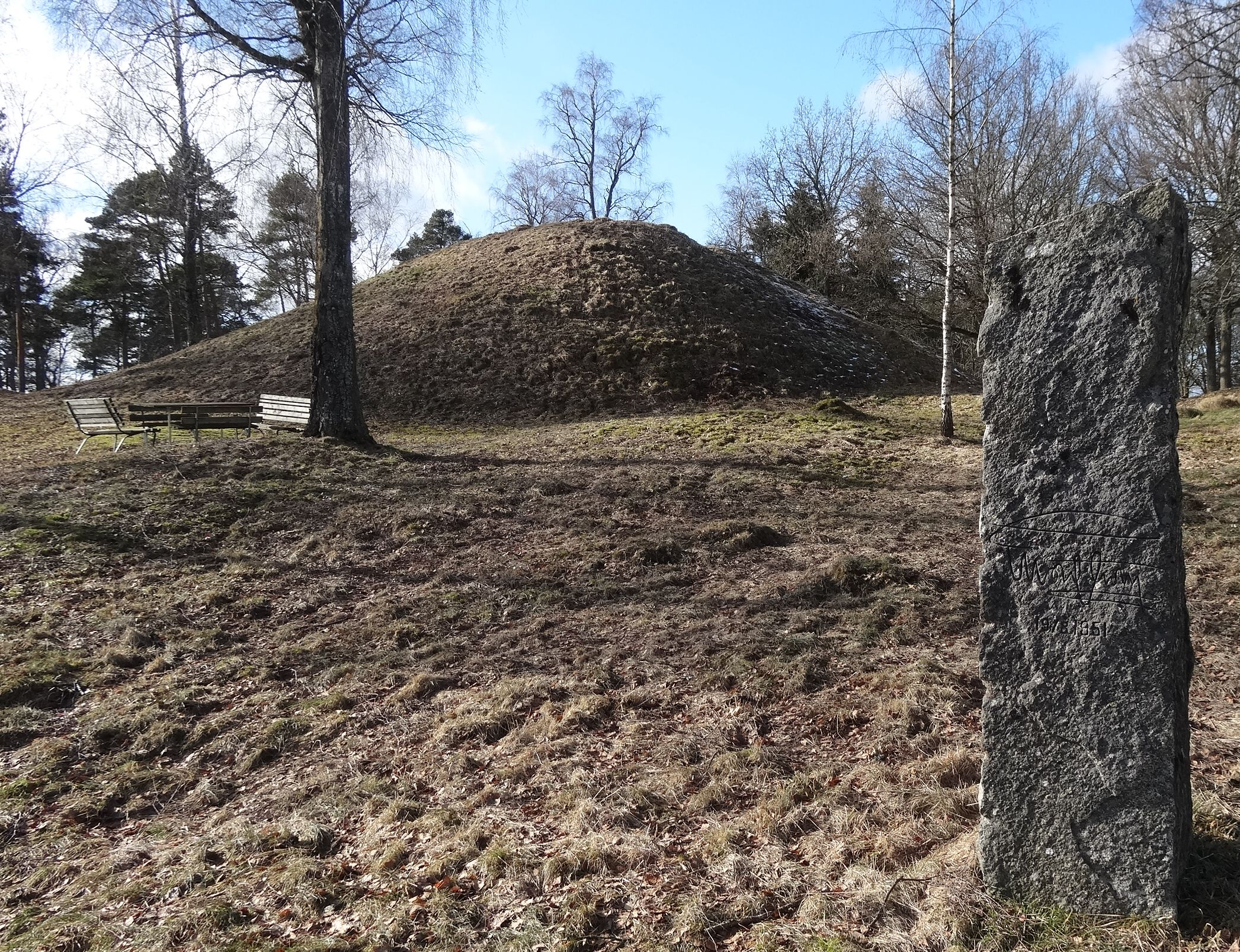 The Iron Age burial mound Larva Bäsing in Larv, Vara municipality, Västergötland, Sweden. In the foreground is a stone commemorating the visit on the site of King Gustav VI Adolf in 1951.